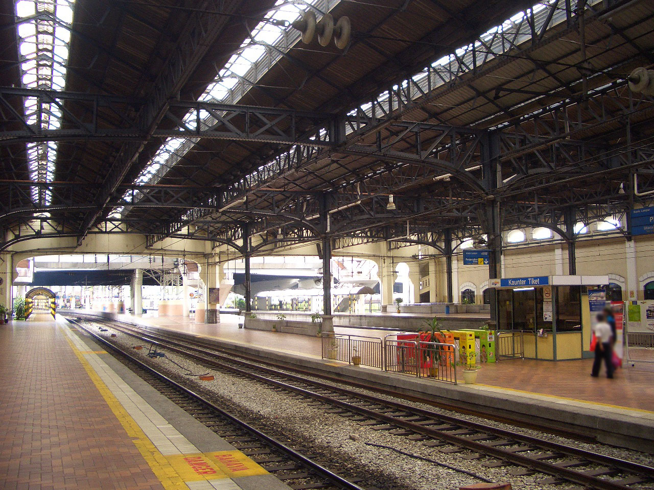 Kuala Lumpur Railway Station